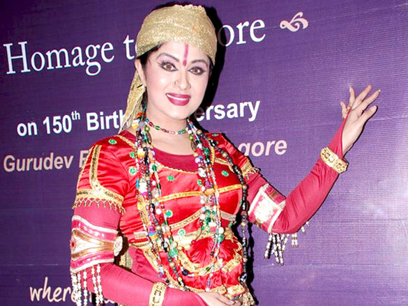 Sudha chandran rabindranath tagore 150th birth aniversary celebration